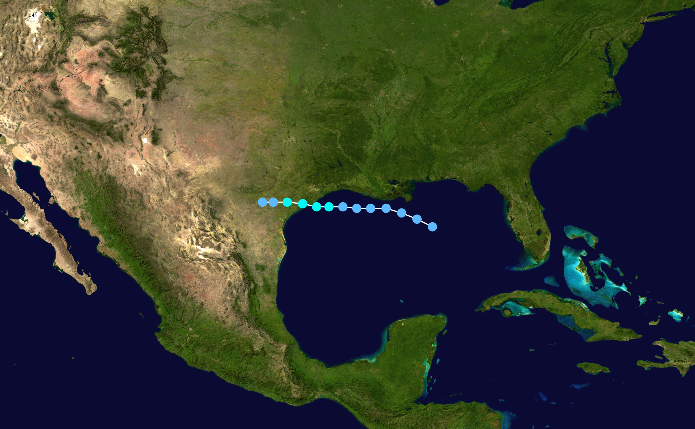 Track map of Tropical Storm Abby of the 1964 Atlantic hurricane season. The points show the location of the storm at 6-hour intervals. The colour represents the storm's maximum sustained wind speeds as classified in the Saffir–Simpson scale (see below), and the shape of the data points represent the nature of the storm, according to the legend below. Saffir–Simpson scale Tropical depression≤38 mph≤62 km/h Category 3111–129 mph178–208 km/h Tropical storm39–73 mph63–118 km/h Category 4130–156 mph209–251 km/h Category 174–95 mph119–153 km/h Category 5≥157 mph≥252 km/h Category 296–110 mph154–177 km/h Unknown Storm type Tropical cyclone Subtropical cyclone Extratropical cyclone / Remnant low / Tropical disturbance / Monsoon depression